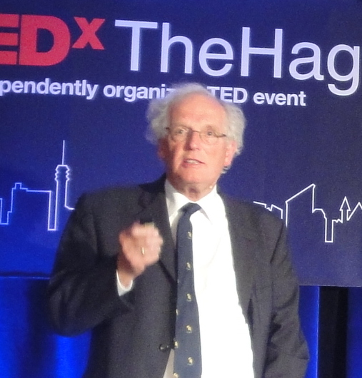 Peter Westbroek doing a presentation at TEDxTheHague